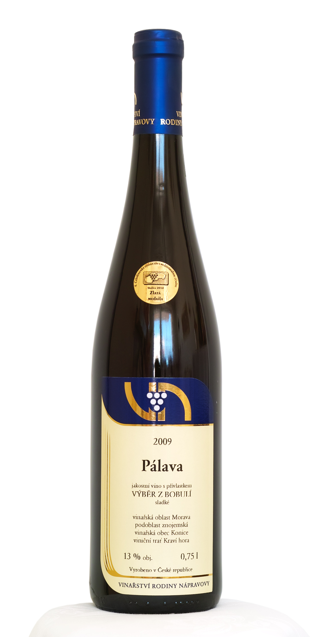 Quality wine (Palava, selected berries harvest 2009)